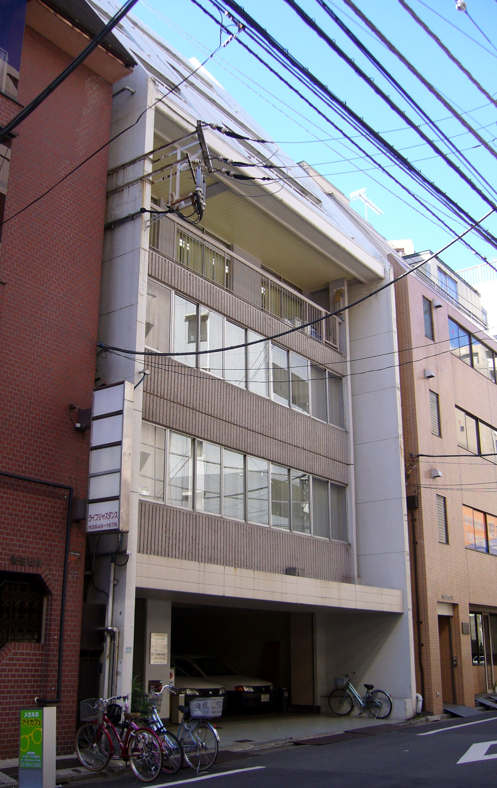 Goei Otsuka Building (Office building in Tokyo, Japan)